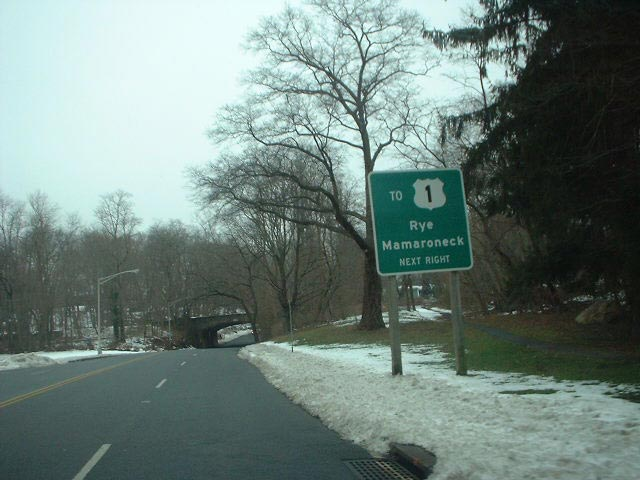 The Playland Parkway approaching the interchange with US 1 in Rye, New York